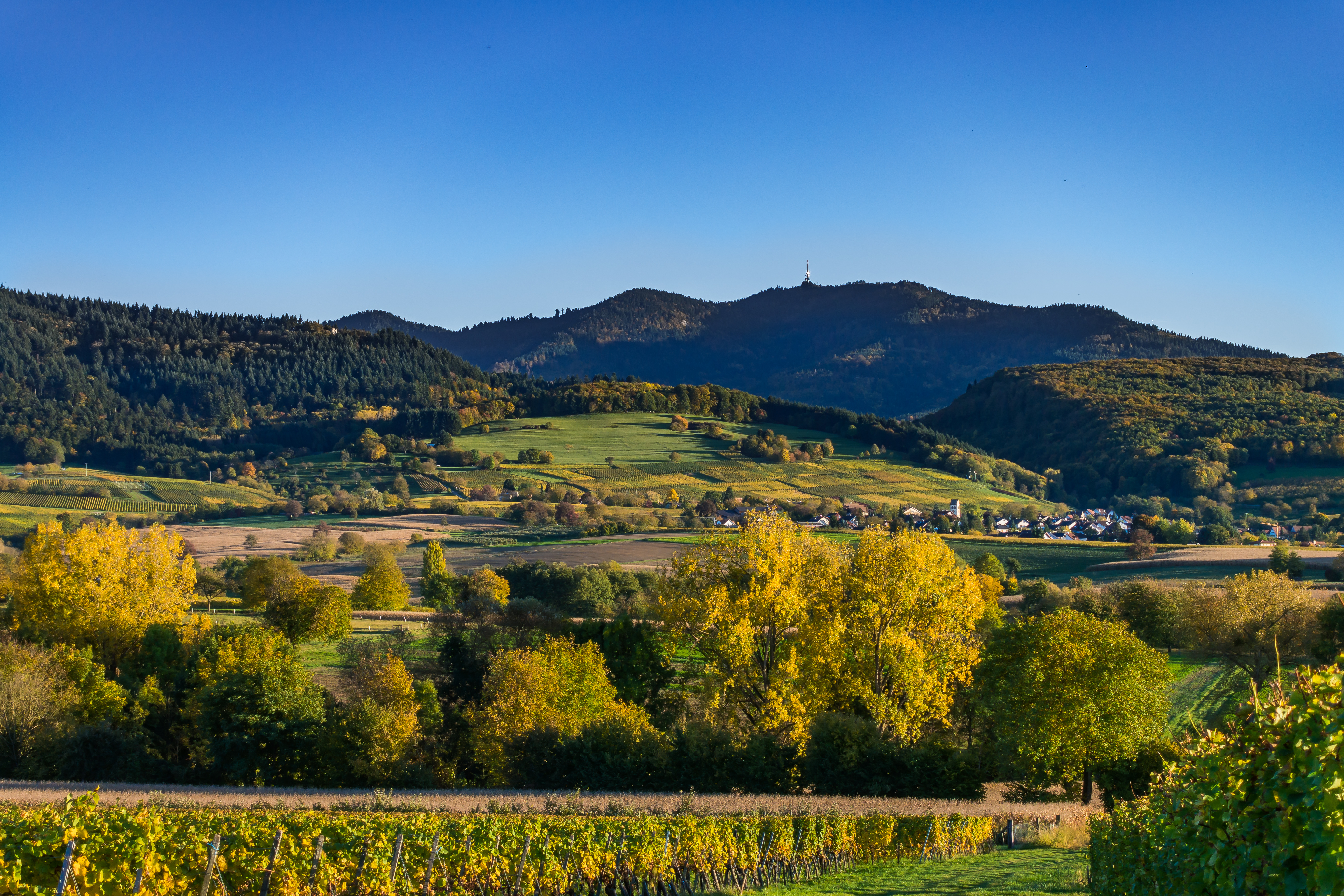 View of the village Britzingen (Müllheim) in the Markgräflerland (South Baden, Germany). In the background you can see the castle Neuenfels and the telecommunications tower Blauen (Black Forest).